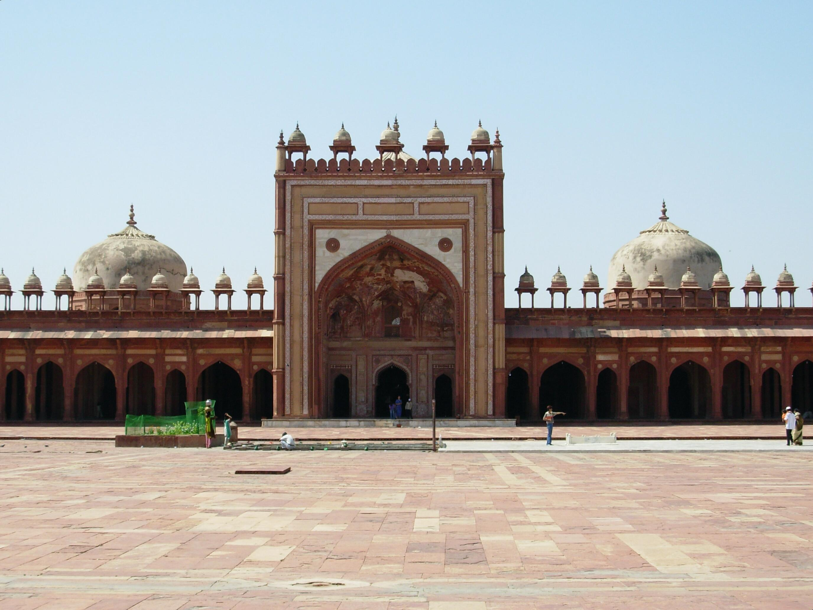 Jama Masjid at Fathepur Sikri, near Agra, India